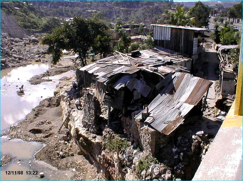 This image shows a damaged house in Honduras caused by Hurricane Mitch in October of 1998.